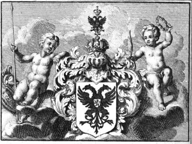 First COA of Nijmegen with emperorscrown.